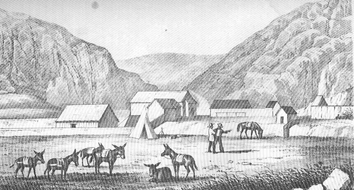 Oroya Subject: Oa Oroya (Peru) Geographic Subject: Peru--La Oroya Tag: Coasts